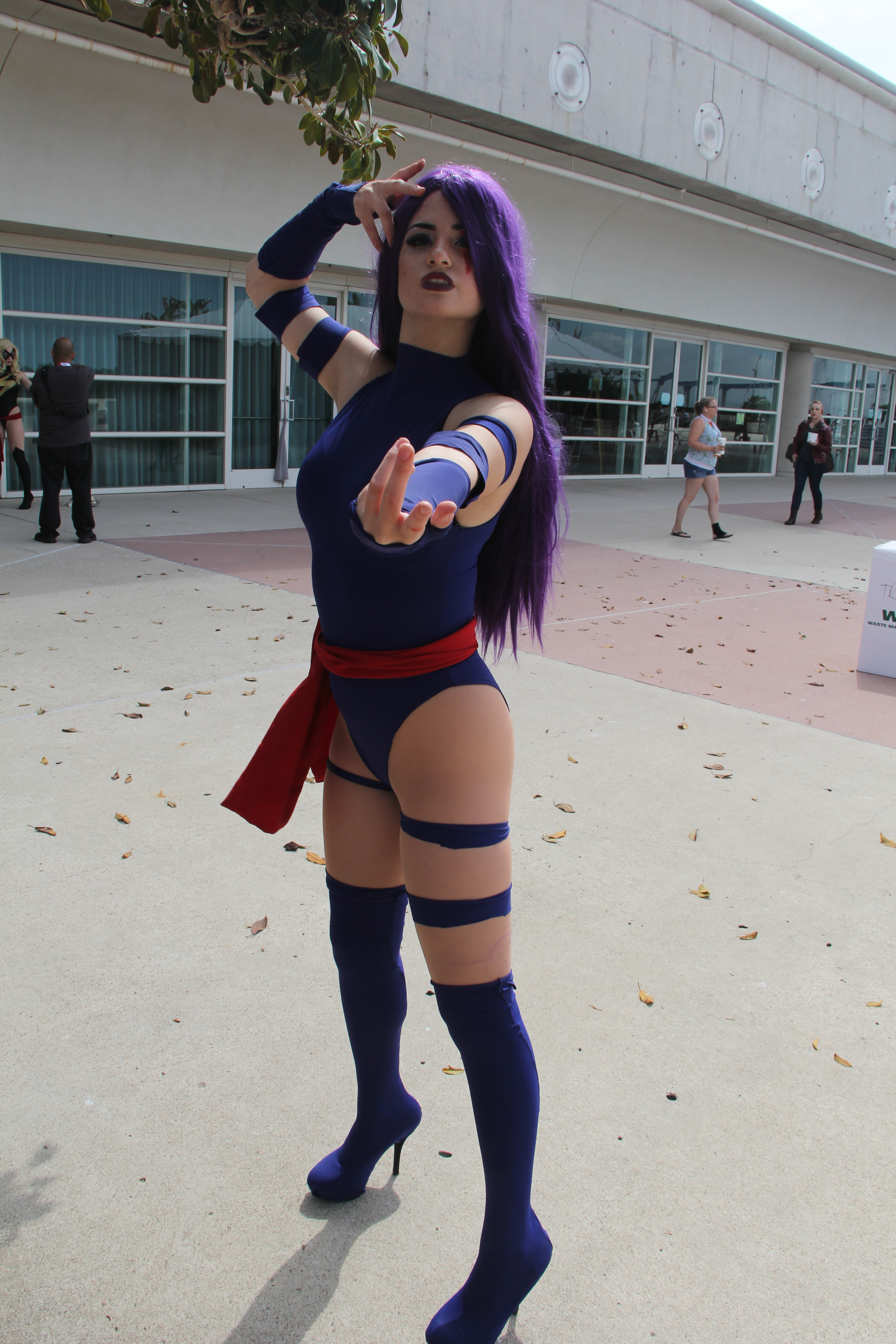 Cosplay at San Diego Comic Con 2015.